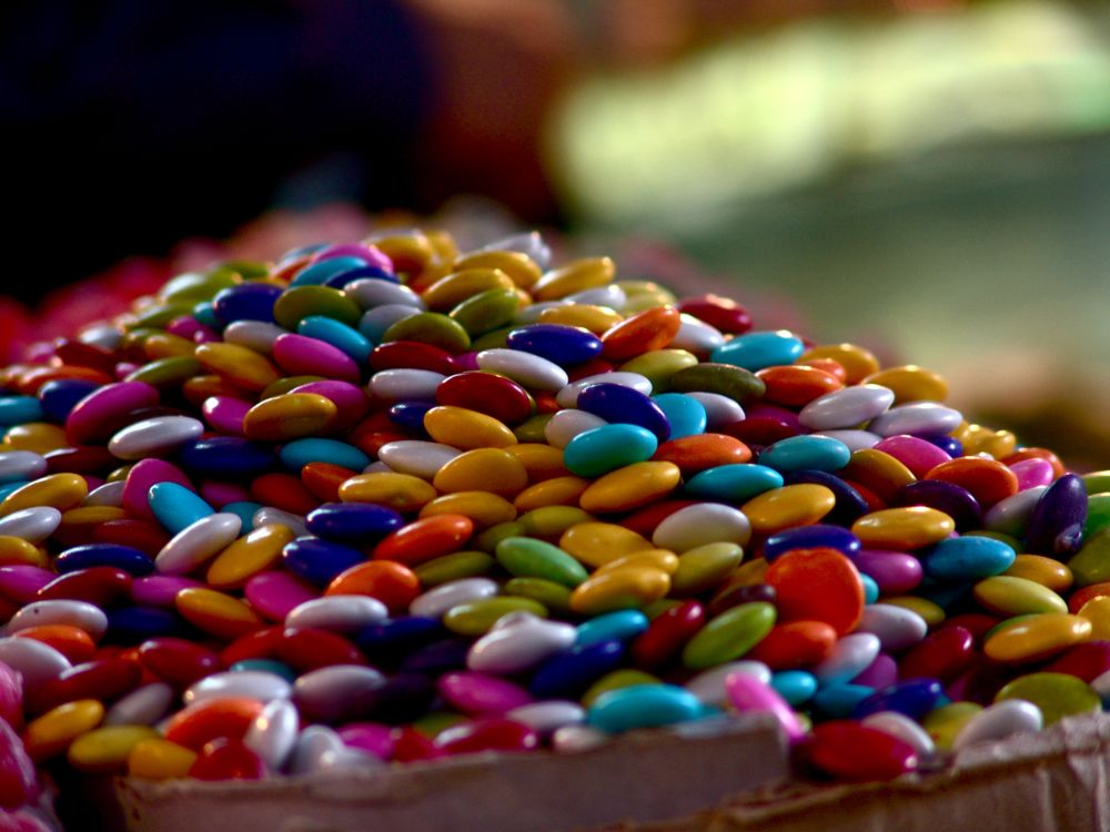 Smarties